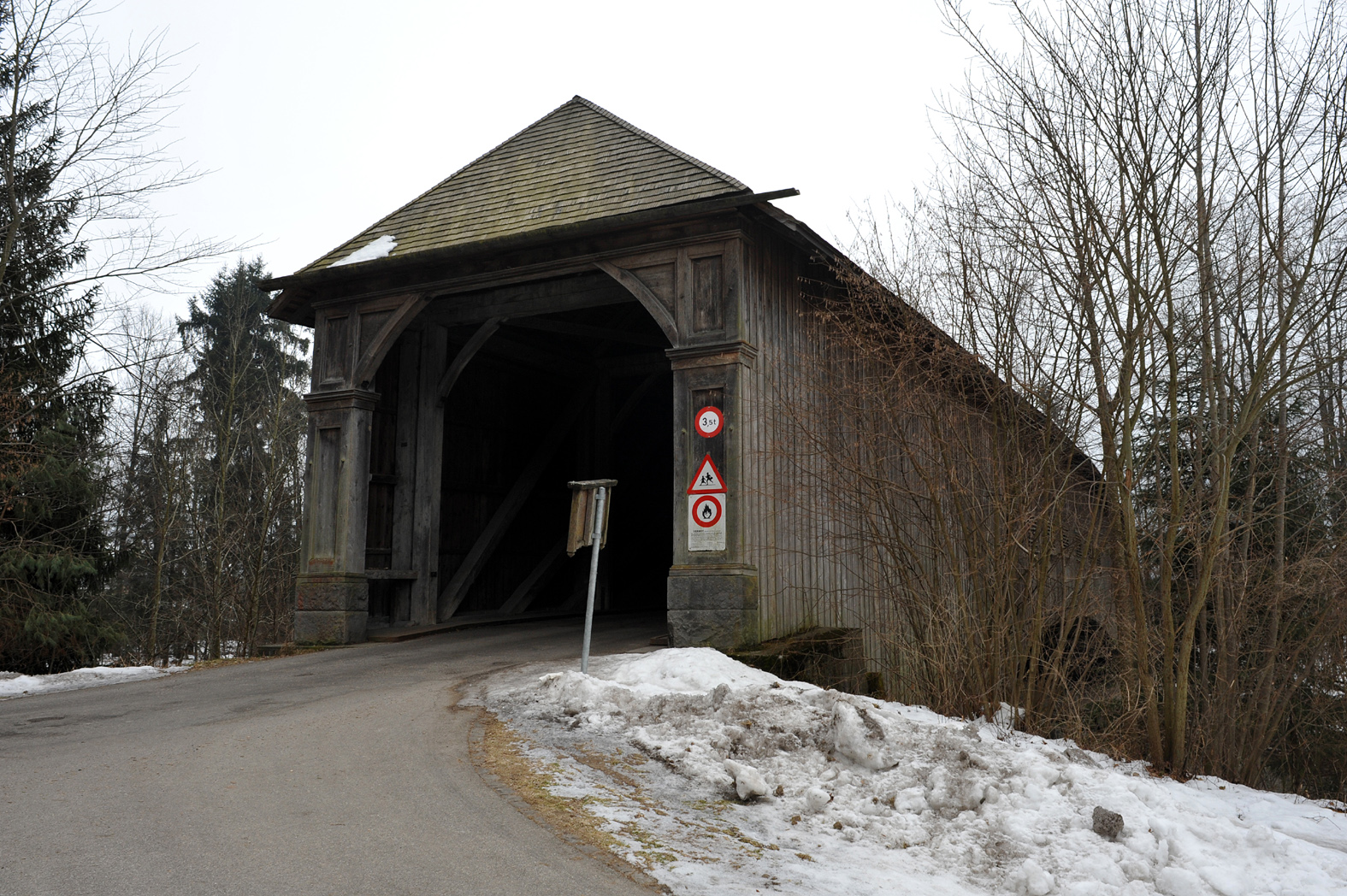 Covered wood bridge of Hasle-Rüegsau, largest wooden arch bridge of Europe; Hasle-Rüegsau, Berne, Switzerland.